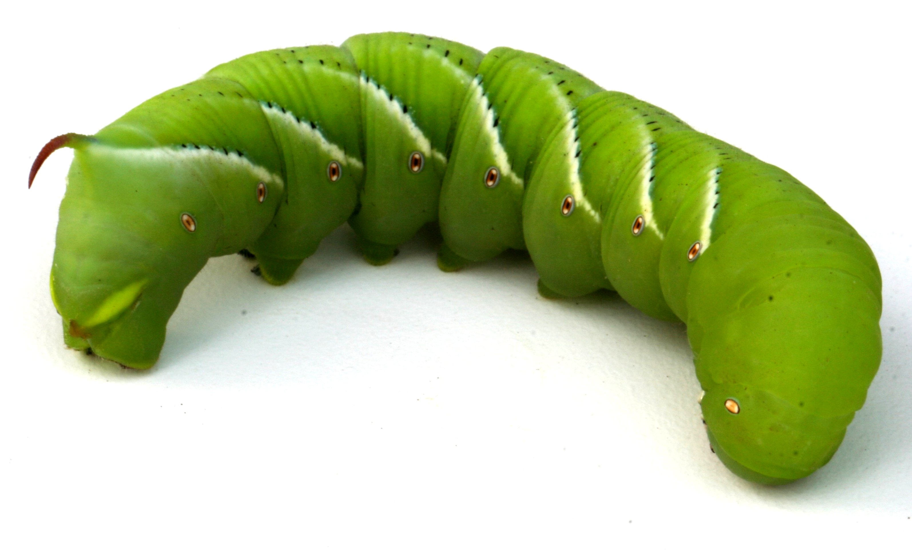 Tobacco hornworm (Manduca sexta)